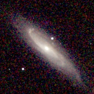 Galaxy NGC 134